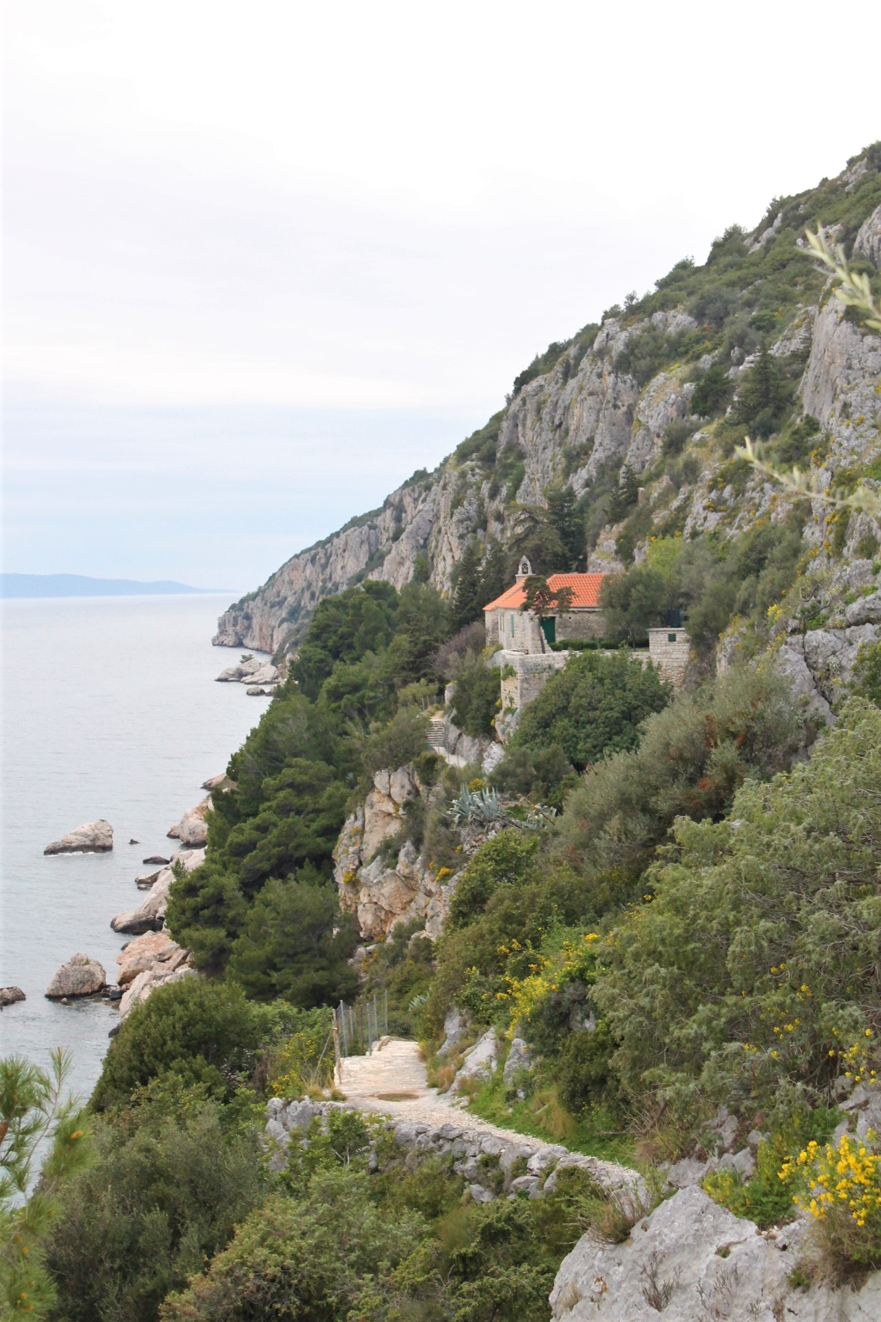 Church of Our Lady of Prizidnica and ermatory, Croatia This is a a photo of a cultural heritage in Croatia with ID: Z-5435